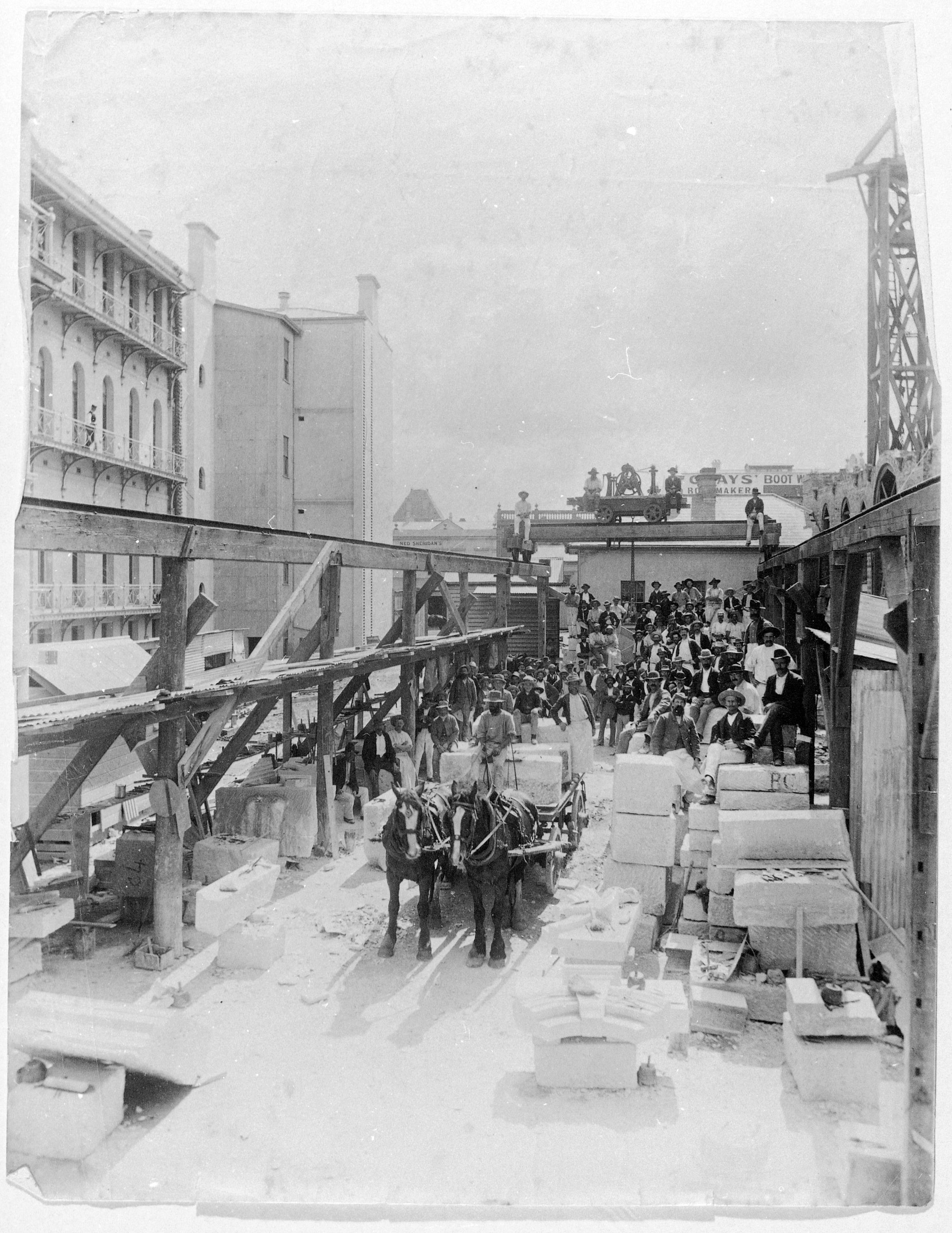 This photograph is from a black and white 120 format film negative strip featuring four images by PC Poulsen. It depicts a large number of men working standing between wooden frames on the building site of the Queensland Treasury Building. It depicts stage two of the Elizabeth Street extension of the construction which was completed in 1893. In the background is a building with the words 'Gray's Boot' and 'bookmaker' written on it. Gray's Boot Warehouse opened in George Street, Brisbane, in 1844. The photo shows a large number of men standing between wooden frames on a building site with large stone blocks around them. In the background a building with the words 'Gray's Boot' and 'Bookmaker' can be seen. Gray's Boot Warehouse opened in George Street, Brisbane, in 1844. The Australian National Maritime Museum undertakes research and accepts public comments that enhance the information we hold about images in our collection. If you can identify a person, vessel or landmark, write the details in the Comments box below. Thank you for helping caption this important historical image. Object number: 00048205